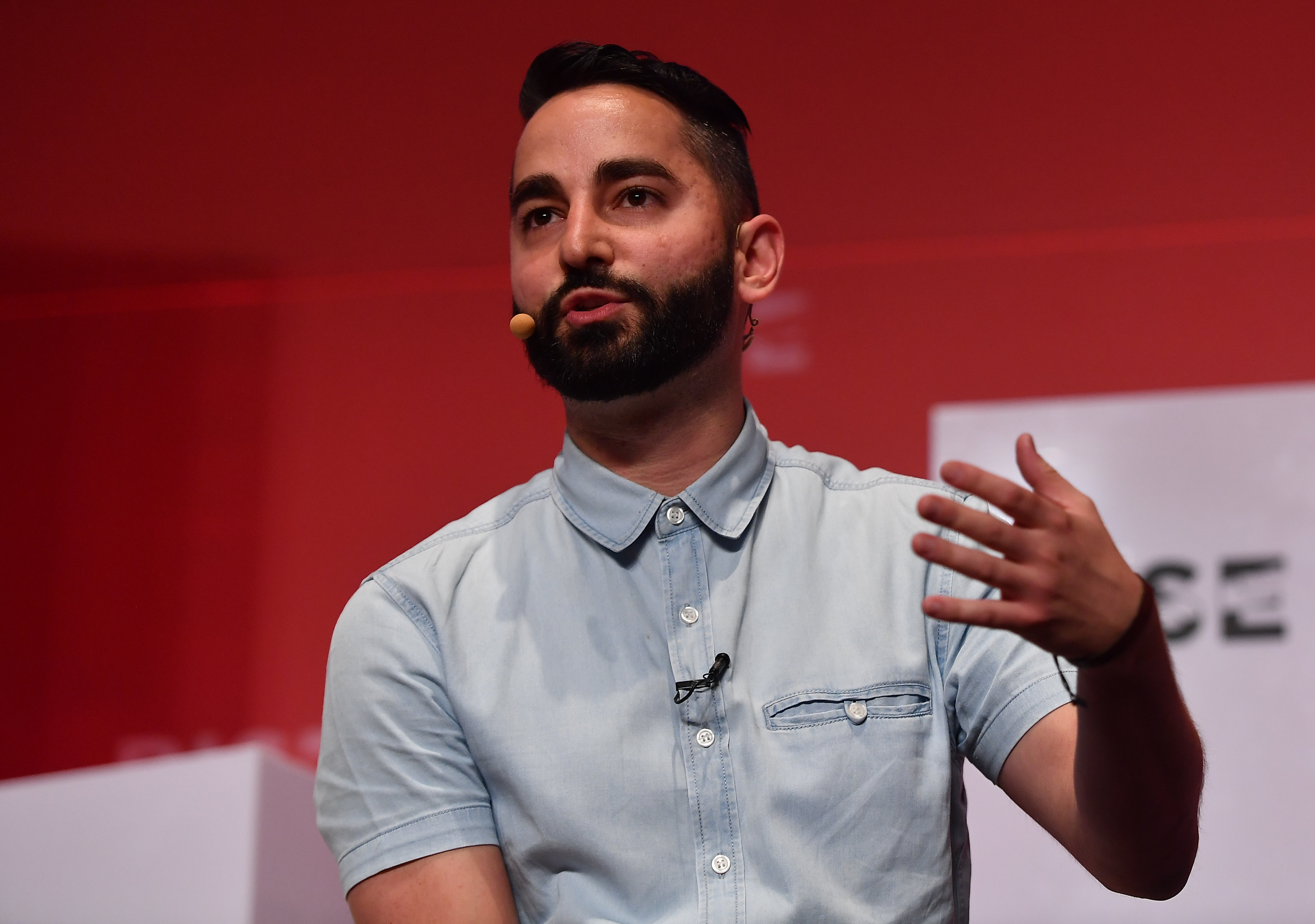 12 July 2018; Sev Ohanian, Writer/Producer, SEARCHING, on Centre Stage during day three of RISE 2018 at the Hong Kong Convention and Exhibition Centre in Hong Kong. Photo by Seb Daly / RISE via Sportsfile